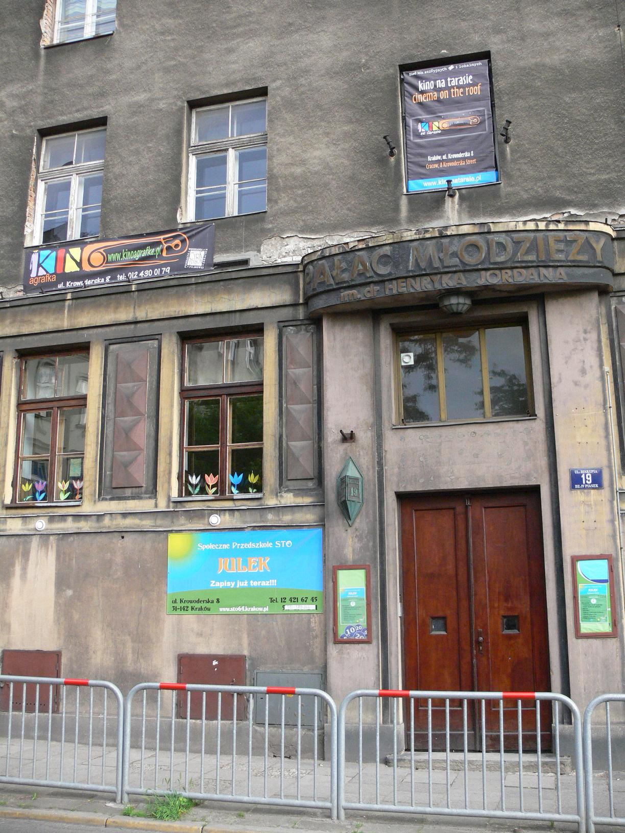 Movie theater Agrafka in Kraków, Poland